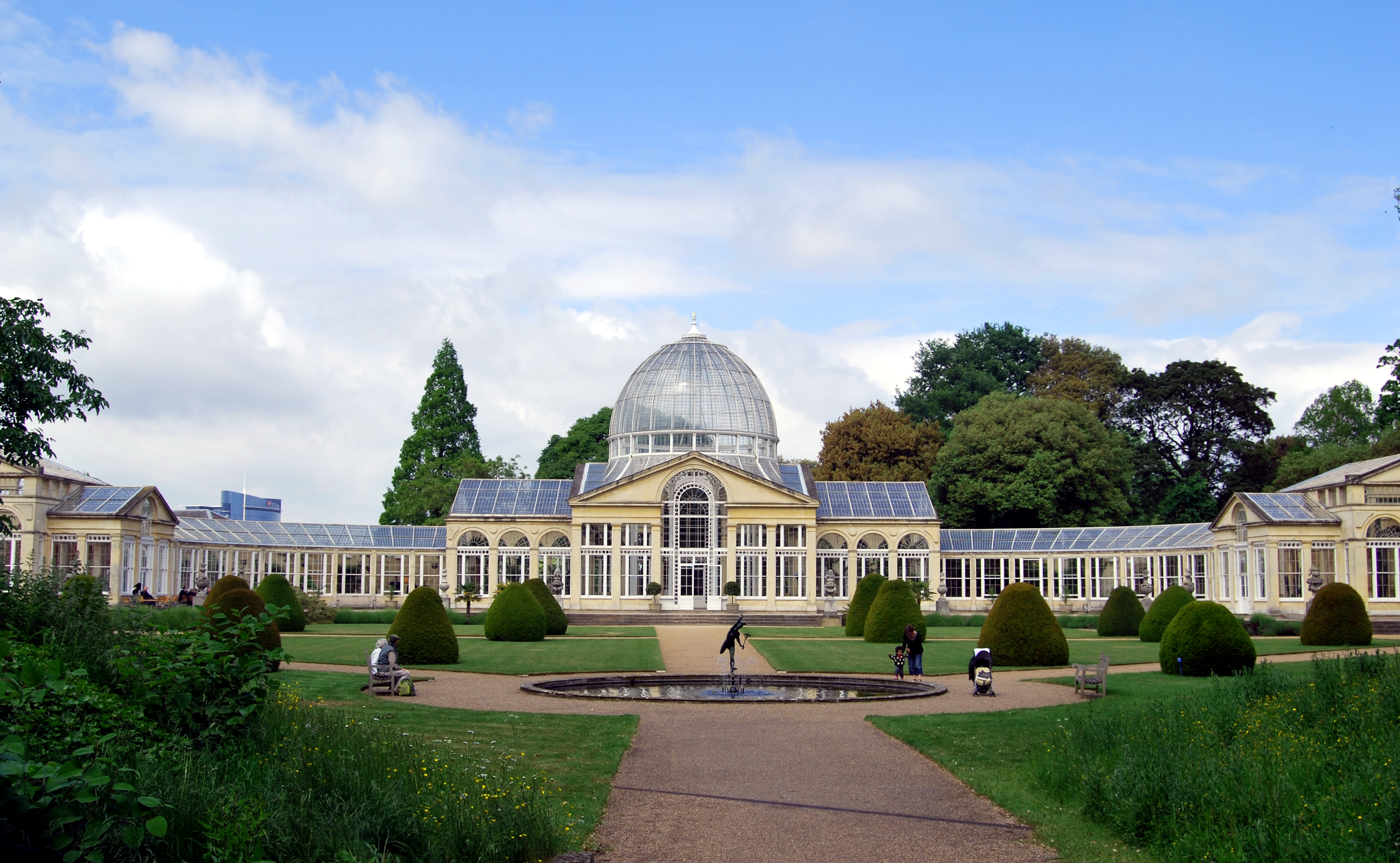 View of the Great Conservatory at Syon House Hounslow London